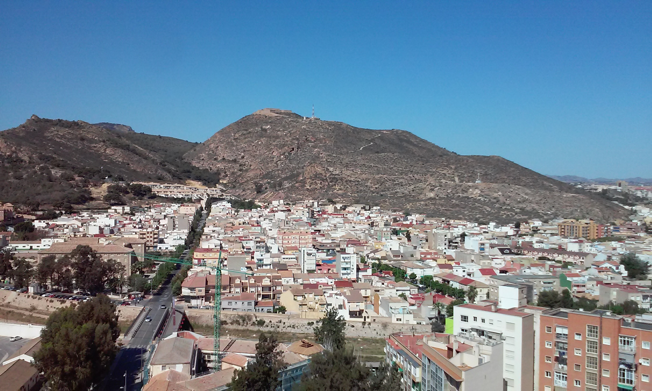 Partial view of the neighborhood of La Concepción in Cartagena (Spain).